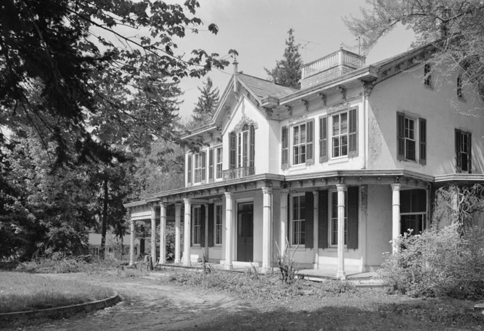 Greenwold, 625 South State Street, Dover (Kent County, Delaware) cropped This file comes from the Historic American Buildings Survey (HABS), Historic American Engineering Record (HAER) or Historic American Landscapes Survey (HALS). These are programs of the National Park Service established for the purpose of documenting historic places. Records consist of measured drawings, archival photographs, and written reports. When reusing please credit: Library of Congress, Prints & Photographs Division, DEL,1-DOV,11-4 This tag does not indicate the copyright status of the attached work. A normal copyright tag is still required. See Commons:Licensing. This work is in the public domain in the United States because it is a work prepared by an officer or employee of the United States Government as part of that person’s official duties under the terms of Title 17, Chapter 1, Section 105 of the US Code. Note: This only applies to original works of the Federal Government and not to the work of any individual U.S. state, territory, commonwealth, county, municipality, or any other subdivision. This template also does not apply to postage stamp designs published by the United States Postal Service since 1978. (See § 313.6(C)(1) of Compendium of U.S. Copyright Office Practices). It also does not apply to certain US coins; see The US Mint Terms of Use. This file has been identified as being free of known restrictions under copyright law, including all related and neighboring rights.